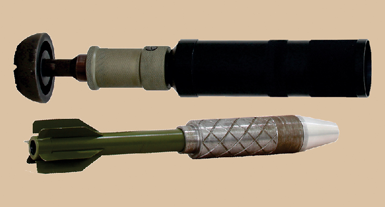 georgian made Noiseless Mortar GNM-60